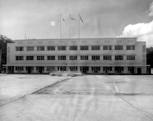 FIELD COMMAND HEADQUARTERS of Republic of Korea Force, Vietnam, at Nha Trang.